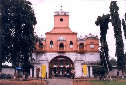 Photo of our school Main Gate